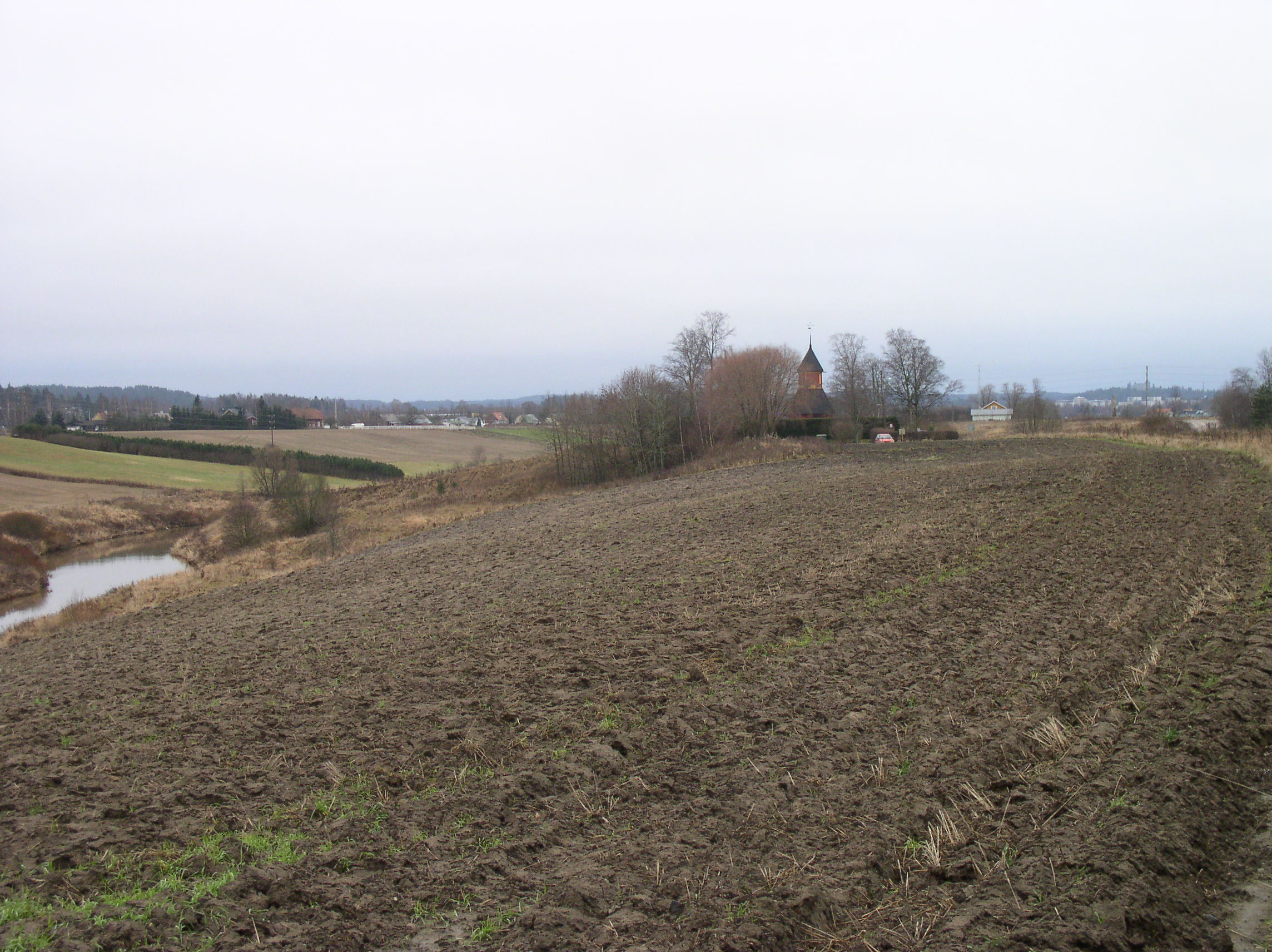 The old site of Uskela church, Salo, Finland. The church was destroyed by a land slide in 19th century. The area affected by the land slide is between the graveyard (around the belfry) and the river.